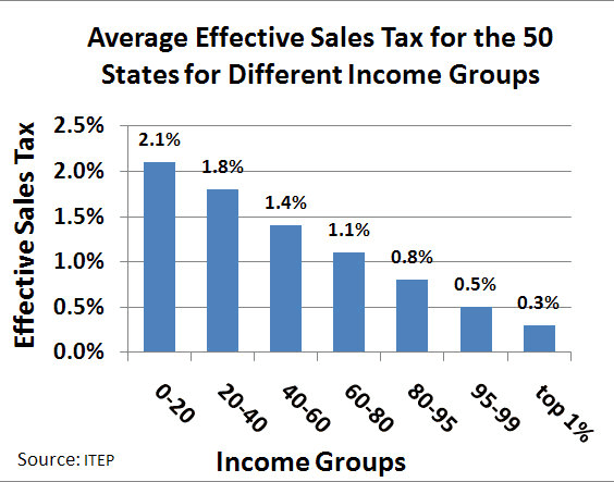 Average effective sales tax of the 50 states for different income groups (2007). The average effective sales tax is calculated by taking total tax paid in this case sales tax divided by income made. The average means the average of the different effective sale taxes of the 50 states. Sales tax includes state and local general sales tax. See specifics in source document.